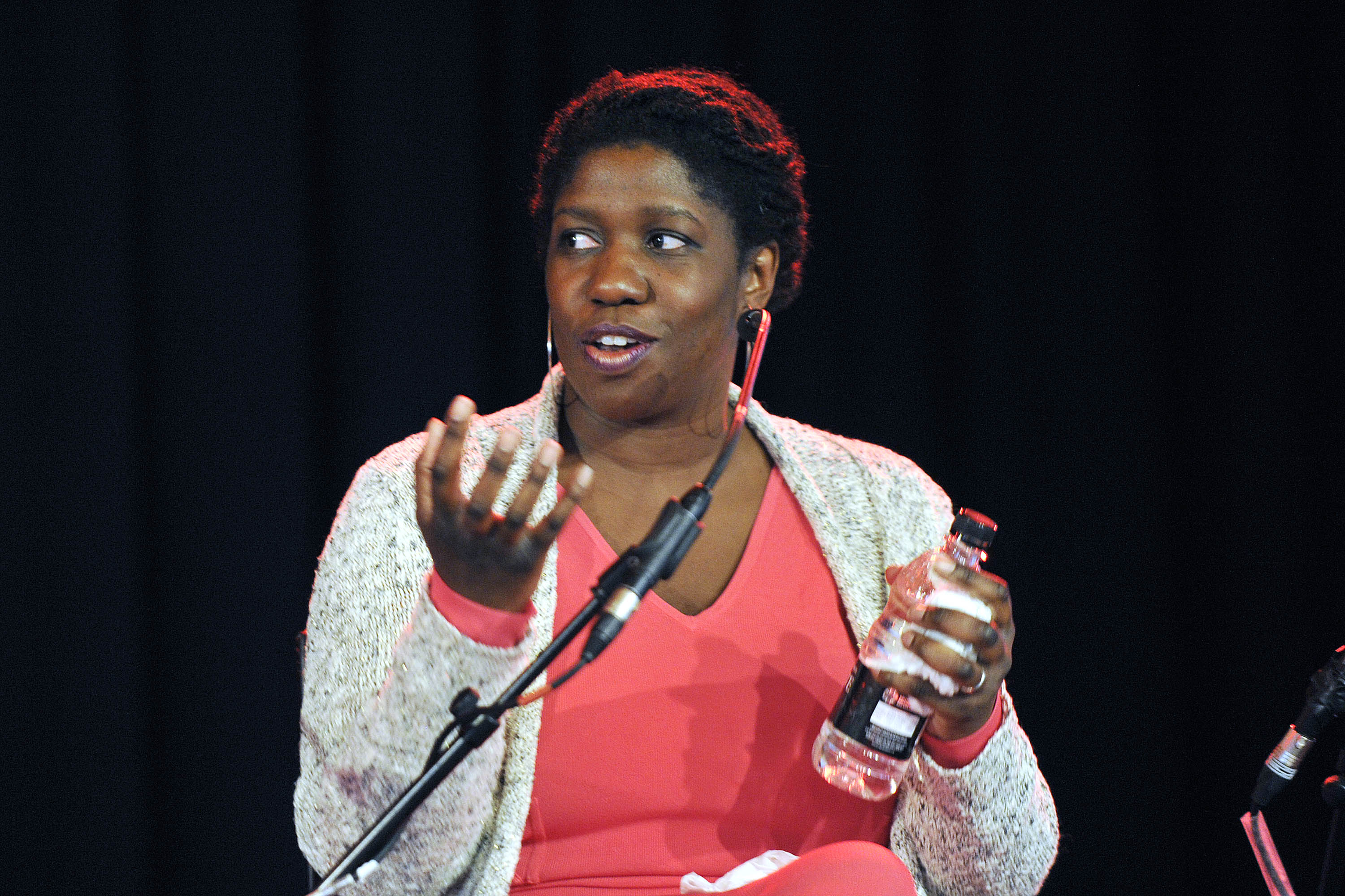 Dorothy Koomson discusses friendship at WOW festival at Southbank Centre